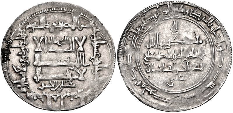 Coin of the Karakhanid ruler Ali-Tegin.